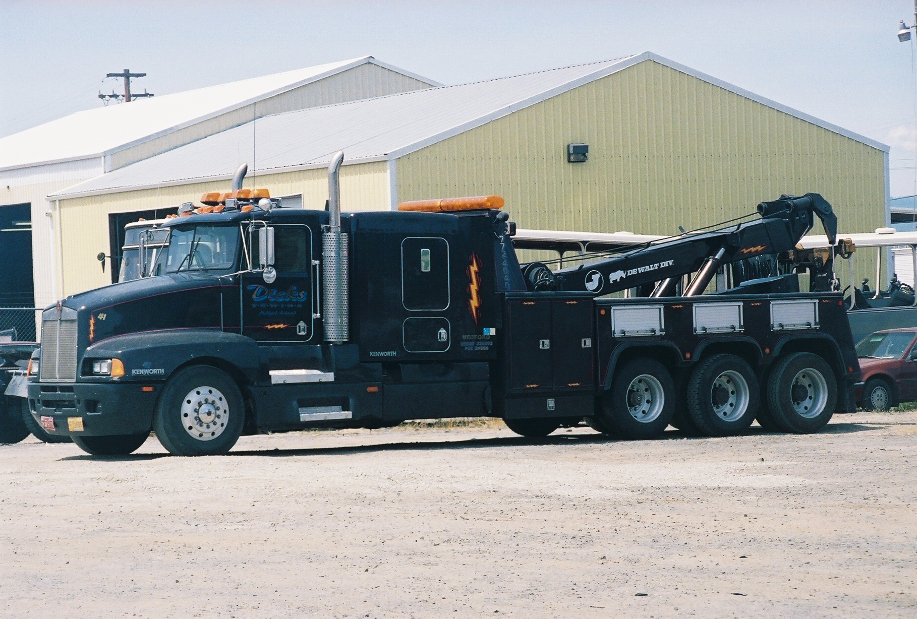 I took this picture myself. Zab 10:09, 28 May 2007 (UTC) This is a 1987 Kenworth T600A truck which weighs in at 47000 LBS. The truck operates out of Medford, Oregon, USA and is rarely used for actual towing (spending most of its time righting heavy trucks which have fallen over or jack-knifed). Before this was a tow truck, this was the exploding tanker truck used in the movie "Thelma & Louise". The company which now owns it bought it and converted it to a heavy-duty boom truck. Zab (talk) 06:39, 14 April 2009 (UTC)